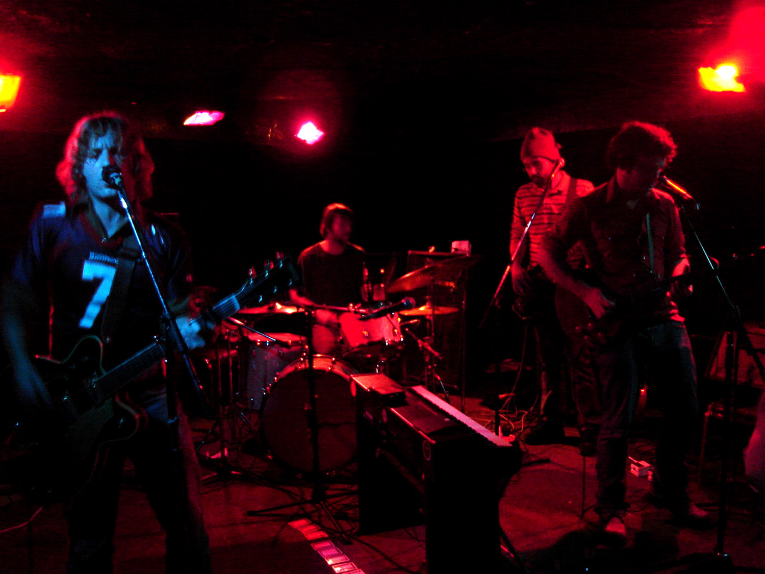 Ox performing at the Townehouse Tavern, a hometown Sudbury venue. Photo features from left Mark Browning (vocal/guitar), Max Myth (drums), Shawn Dicey (bass), Ryan Bishops (piano/guitar)